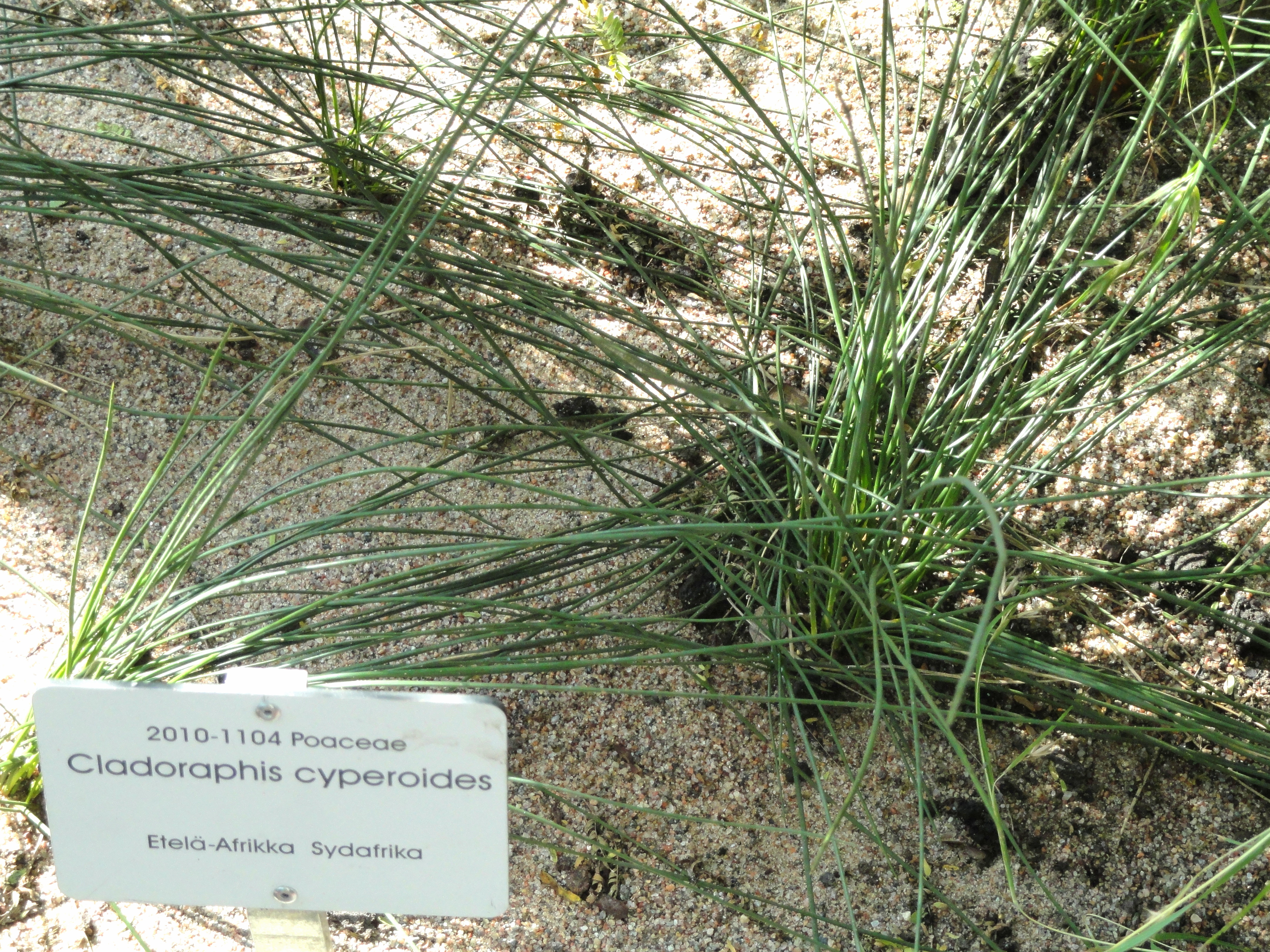 Botanical specimen. The University of Helsinki Botanical Garden at Kaisaniemi